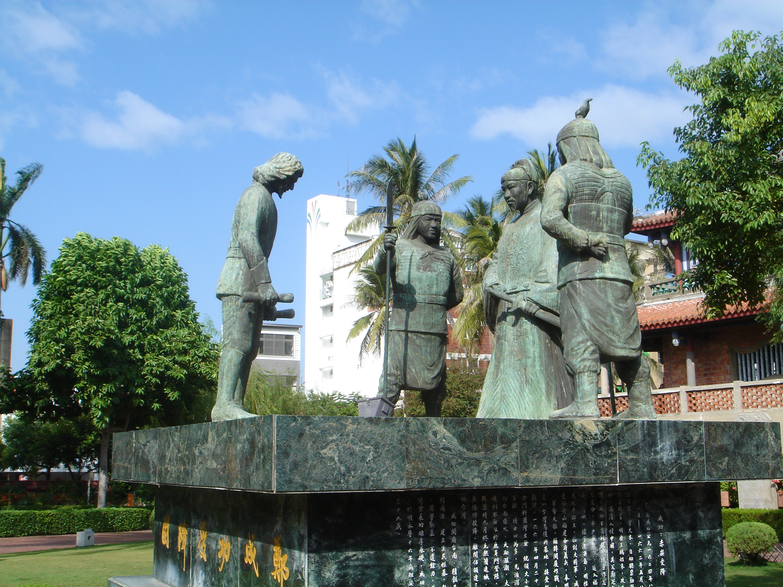 Dutch Surrender at Fort Provintia